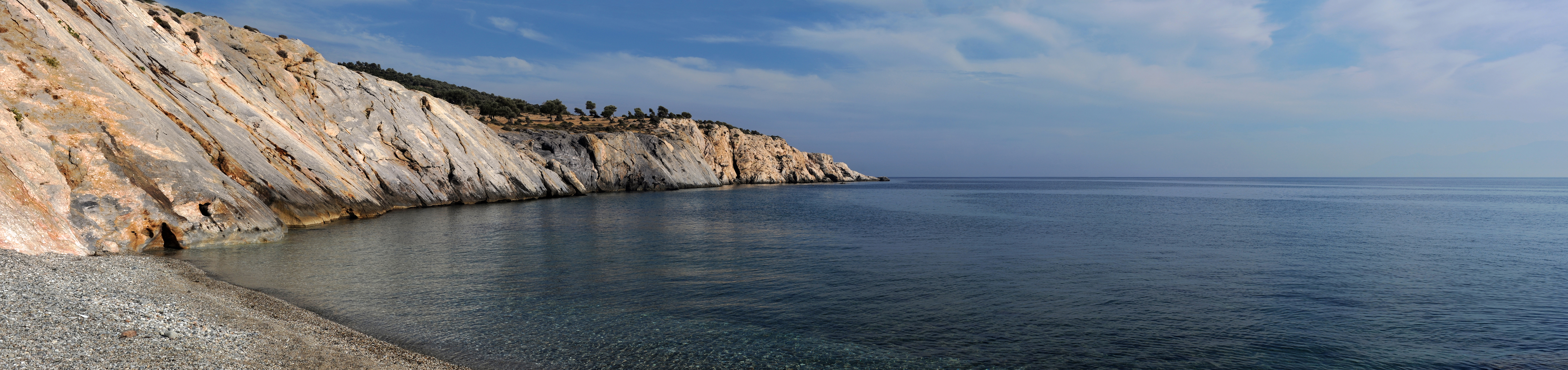 Marmaritsa beach (landscape is part of the Maronia-Makri active fault), Rhodope, Thrace, Greece. In this beach we can observe fold in the marbles due to compressive movements.